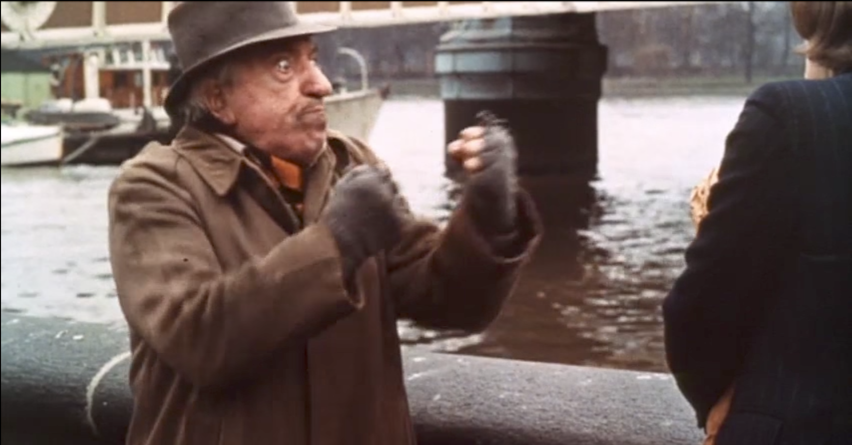 Paul Farrell in the trailer for A Clockwork Orange